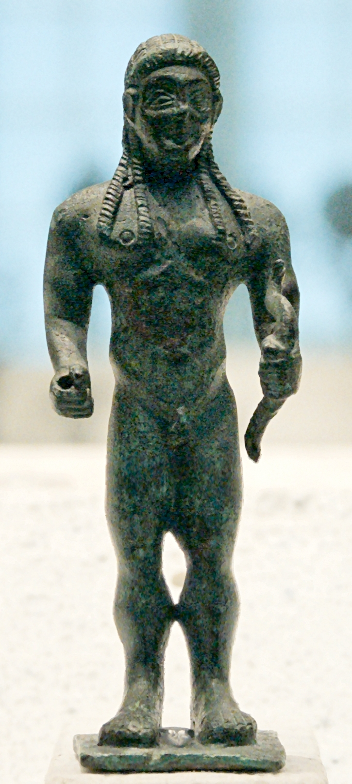 Naked youth with a bow, probably Apollo. Bronze figurine in the Corinthian style dedicated to Zeus (inscription in Corinthian alphabet on the base naming Etymokledas as the donator), ca. 540–30 BC. From Dodona in Epirus.